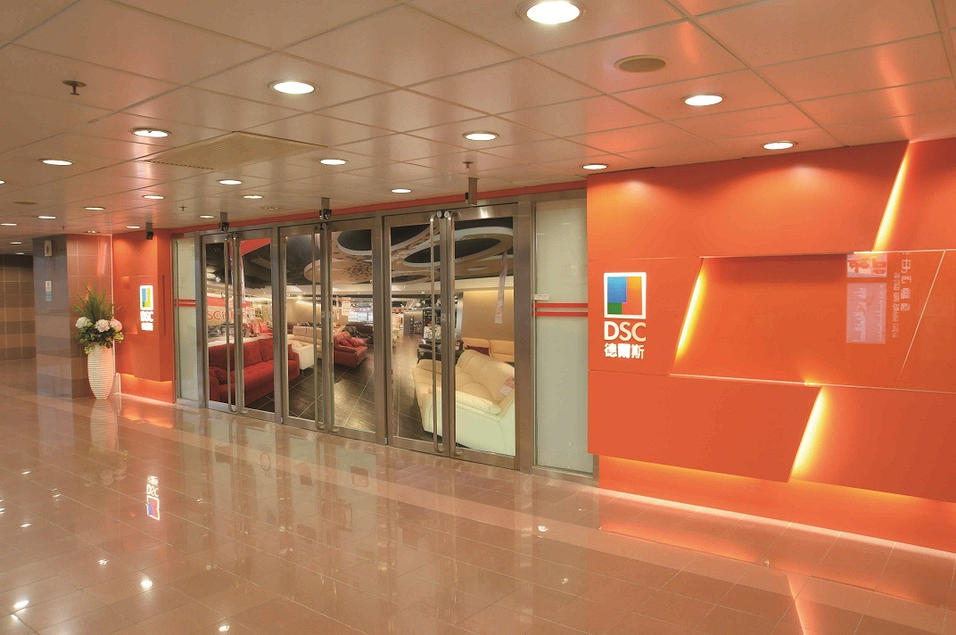 Sun Tuen Mun Plaza